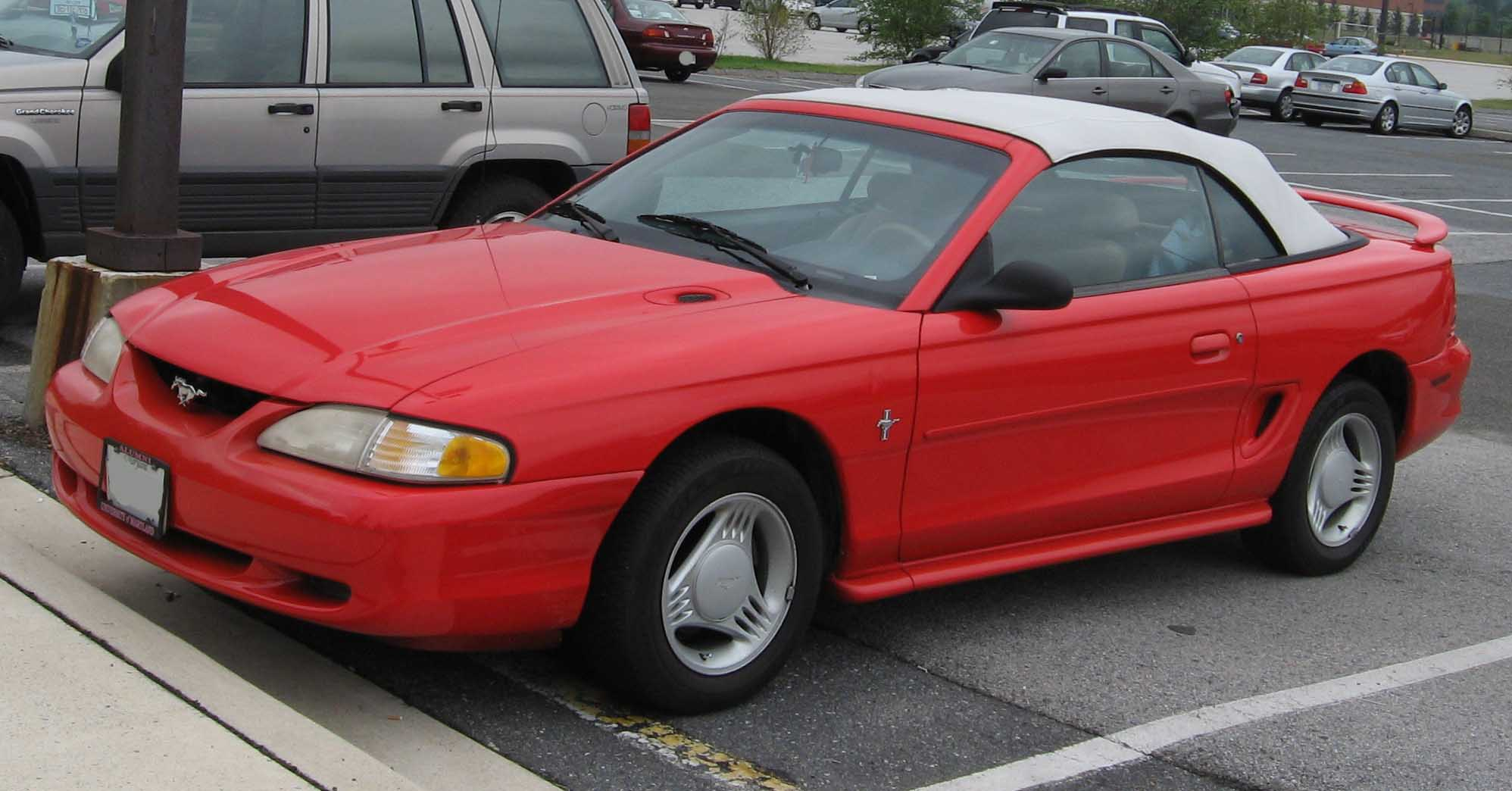 1994-1998 Ford Mustang photographed in USA.